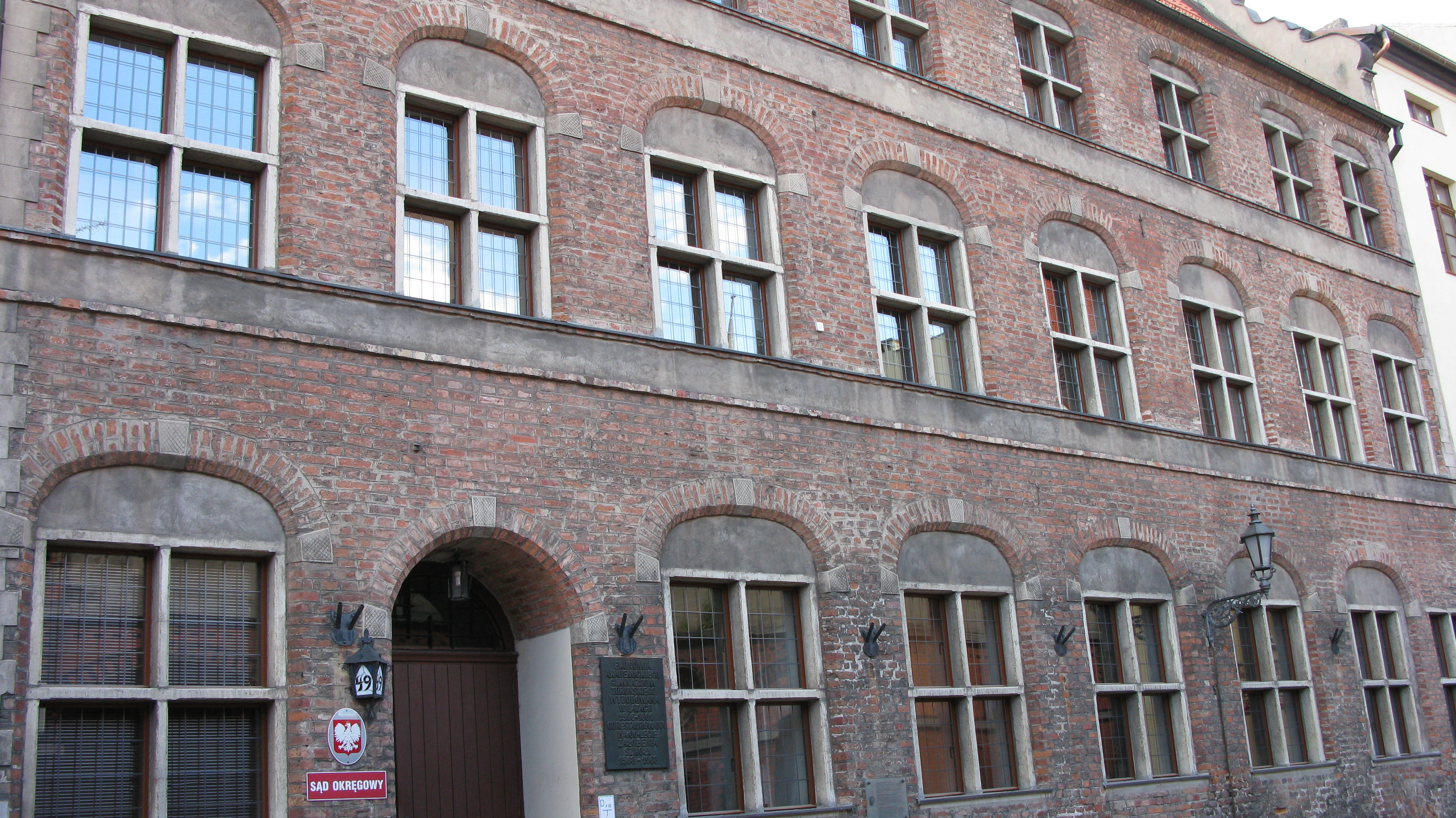 A 16th-century building of dormitory of the Gimnazjum Akademickie - a famous Protestant school in Torun, Poland